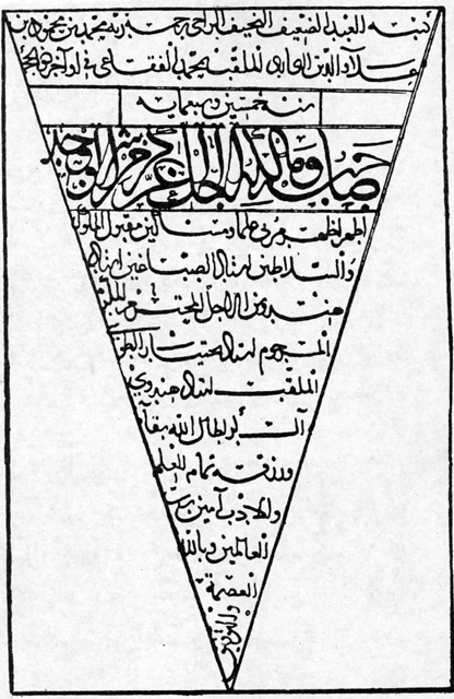 Seen here is the last page of a Qabus nameh manuscript located in the library of The Malik National Museum of Iran, dated 1349.